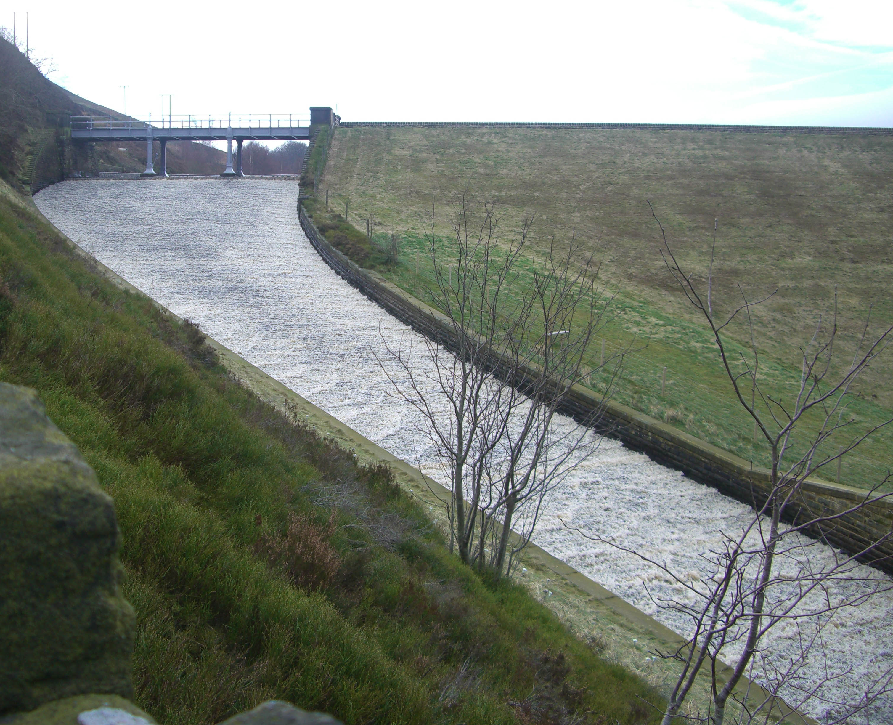 The spillway of the Strines Reservoir near Sheffield, South Yorkshire